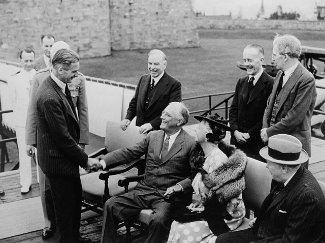 President Franklin Delano Roosevelt greeting Hon. Anthony Eden during the Quebec Conference.